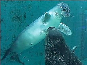 Harbour seal cub in the sealarium at the Fisheries and Maritime Museum in Esbjerg, Denmark (cropped) Foto af spættet sælunge fra sælariet på Fiskerimuseet i Esbjerg (cropped)